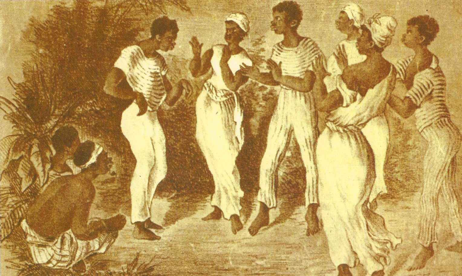 scene of candombe, Montevideo